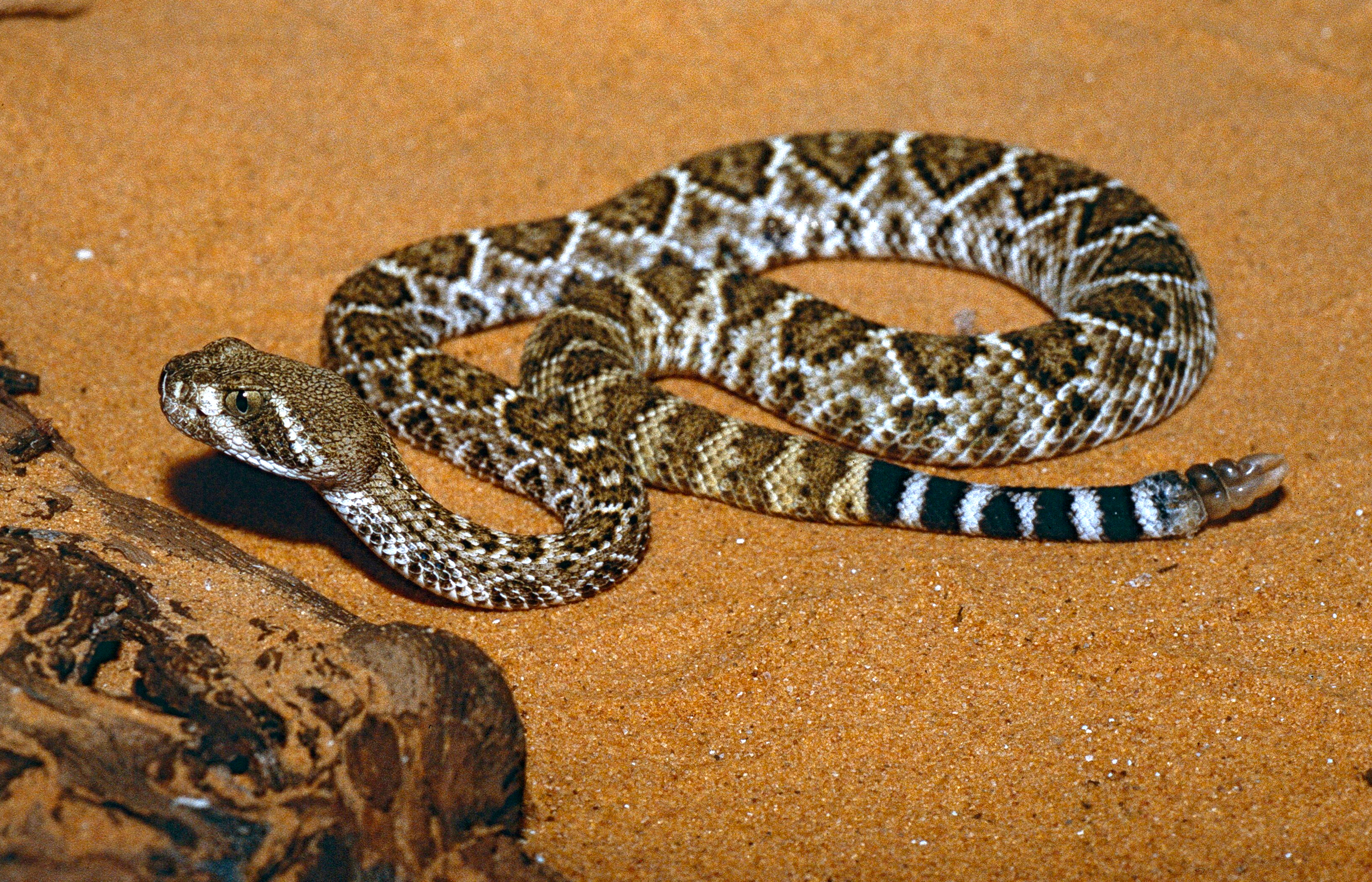 Zoo, Barcelona, Catalonia, SPAIN Scanned Slide from 1996